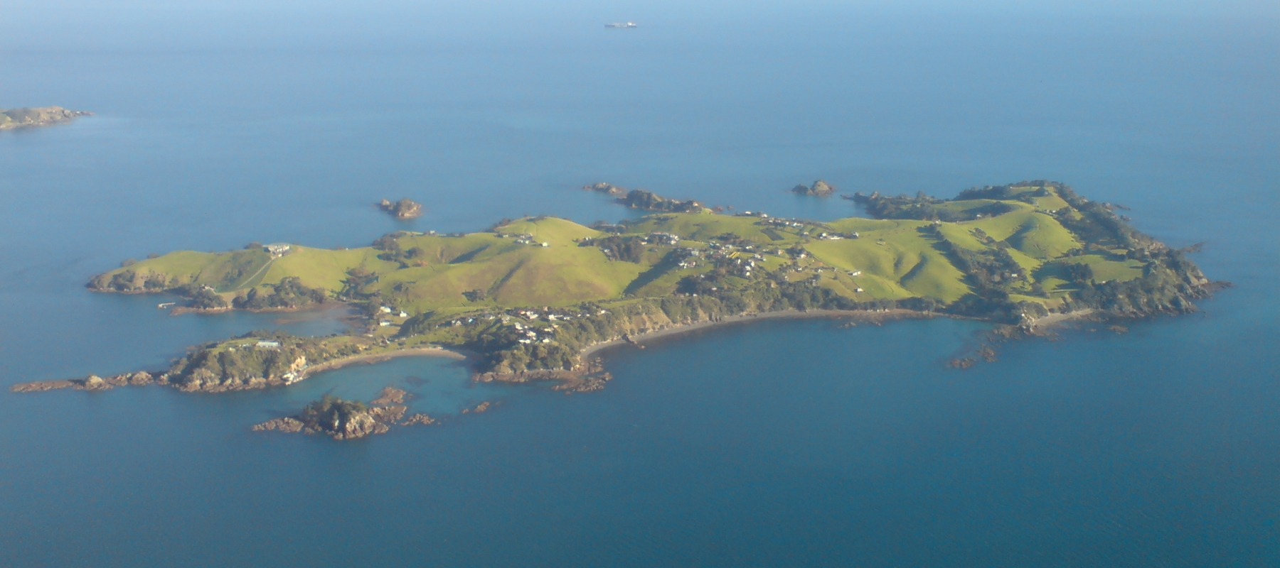 Rakino Island in the Hauraki Gulf of New Zealand. Looking roughly northwest.